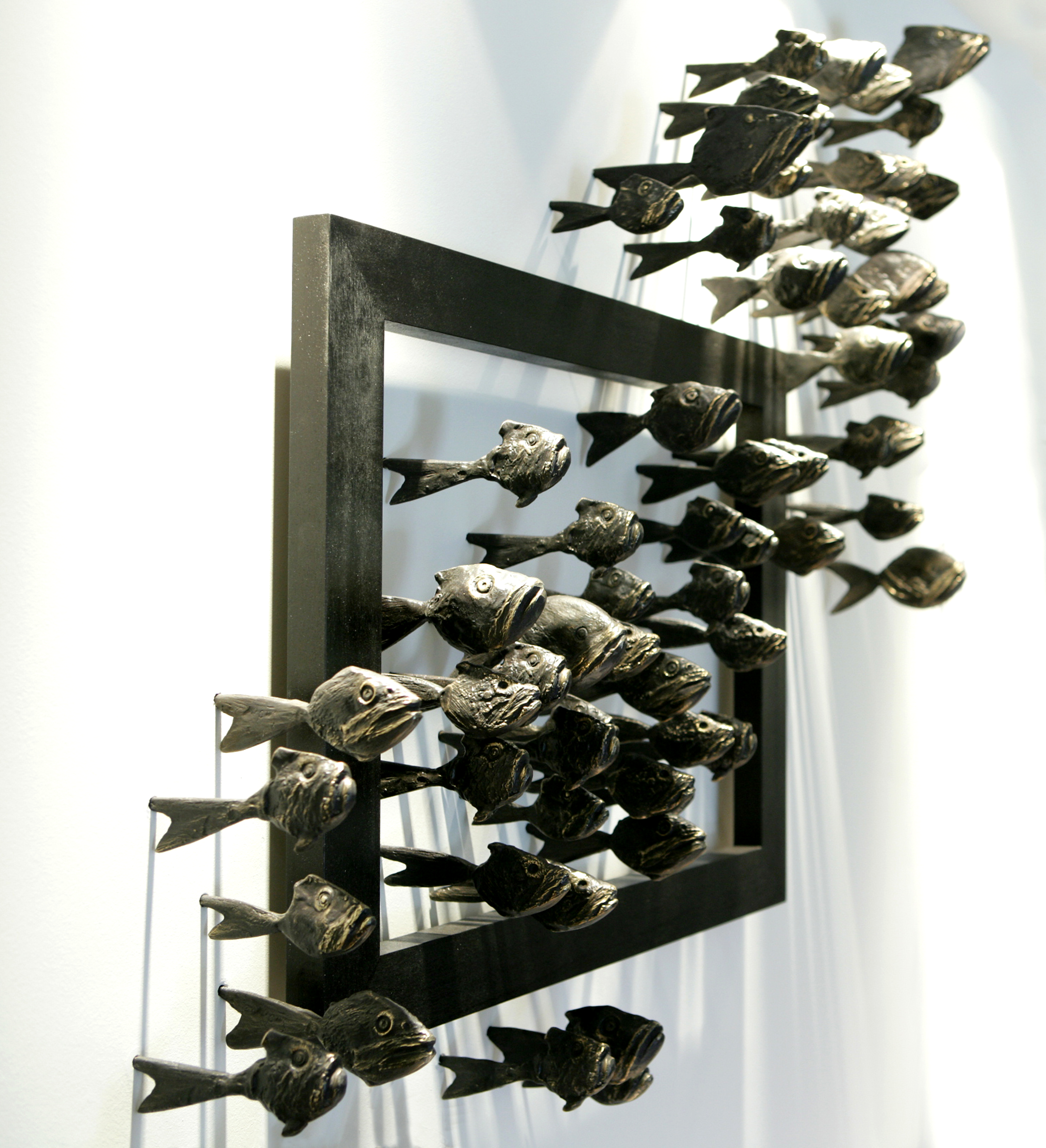 Entrapped Fish (1997)